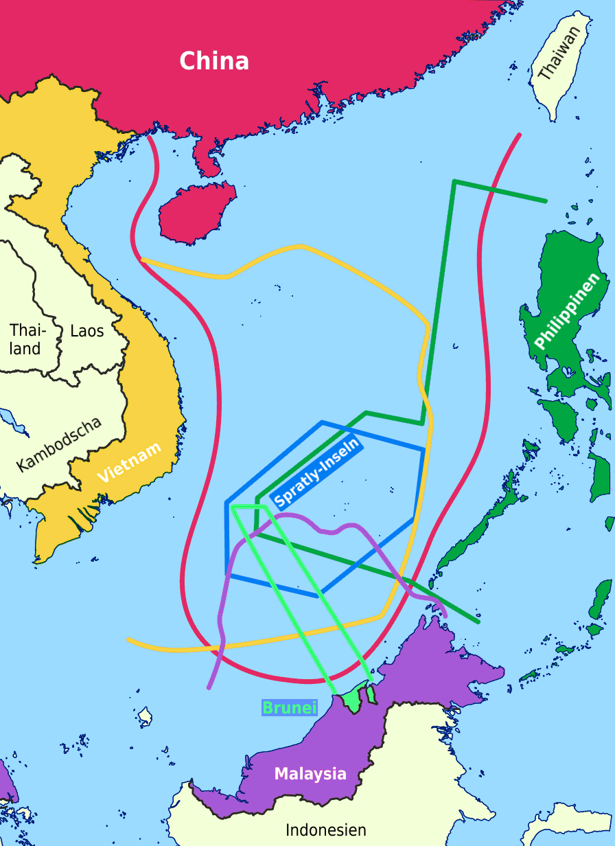 Maritime claims in the South China Sea